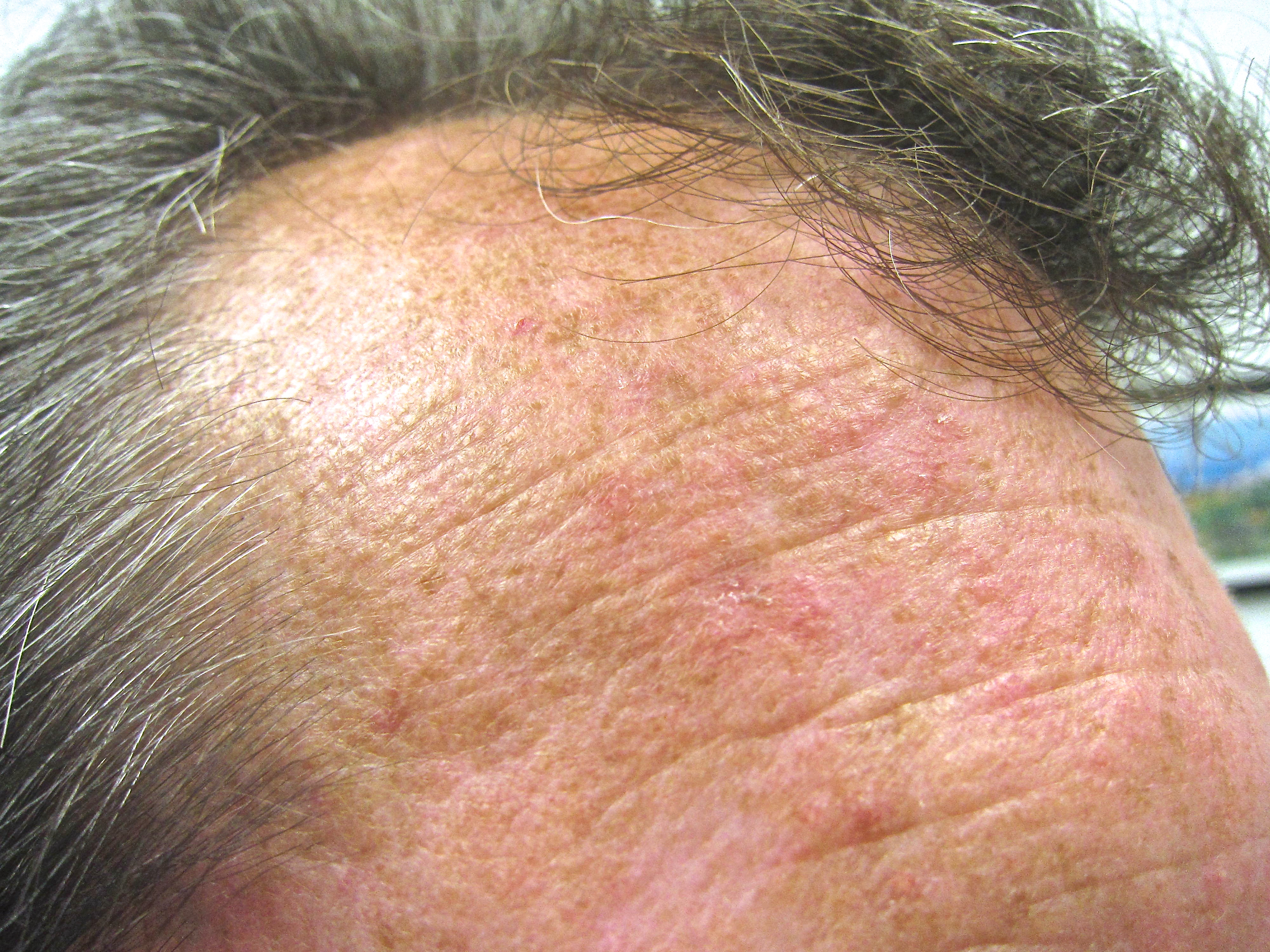 Actinic keratoses are precancerous lesions common on sun-exposed areas of the skin. They can assume many different appearances, but this image shows a very common presentation of AKs on a balding forehead.